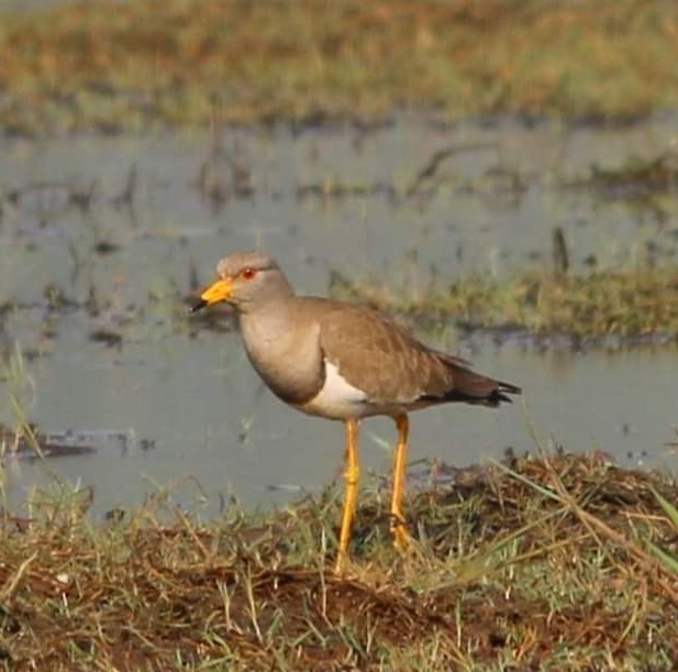 Grey headed lapwing